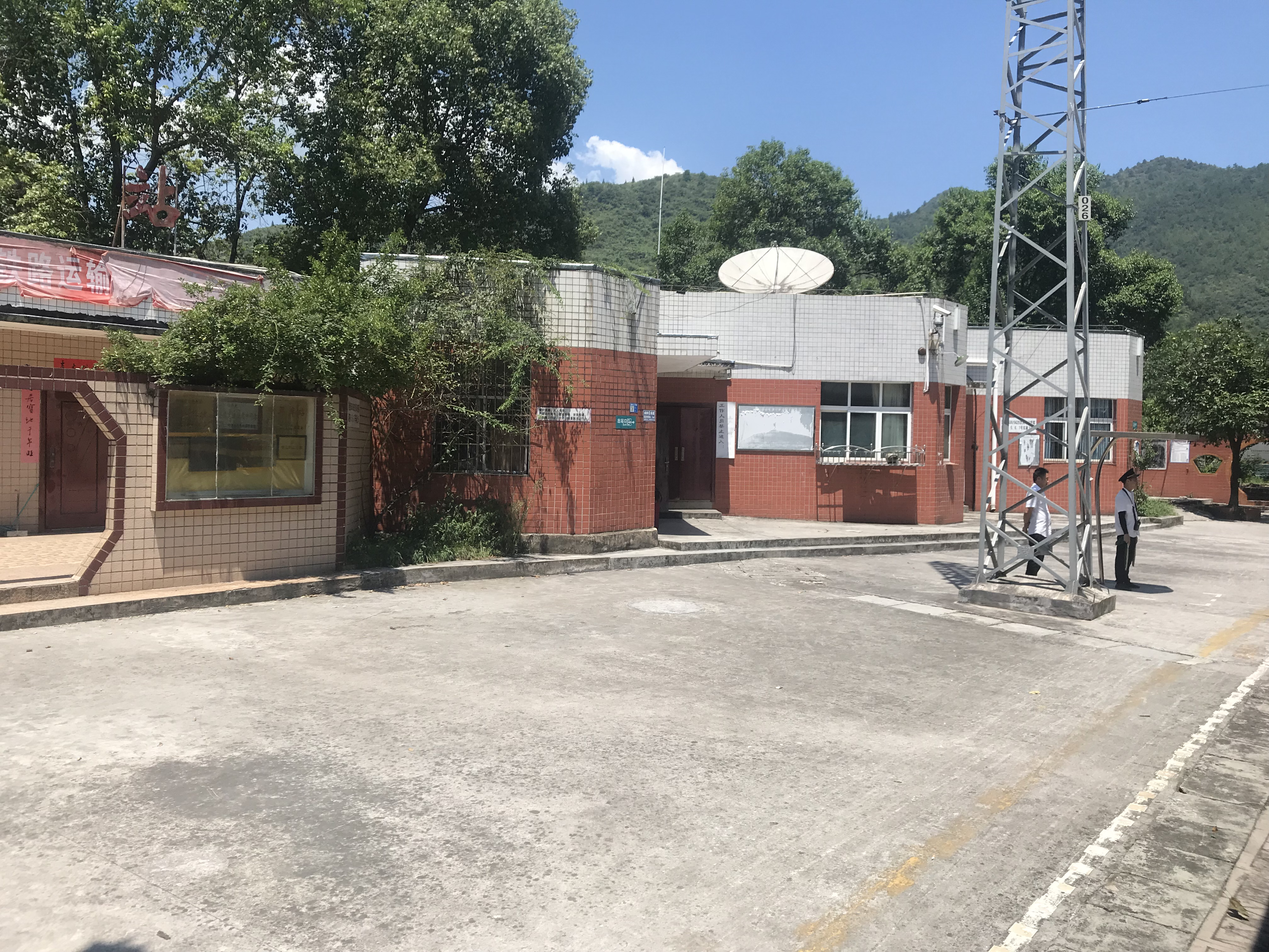 201908 Station Building of Mengdu